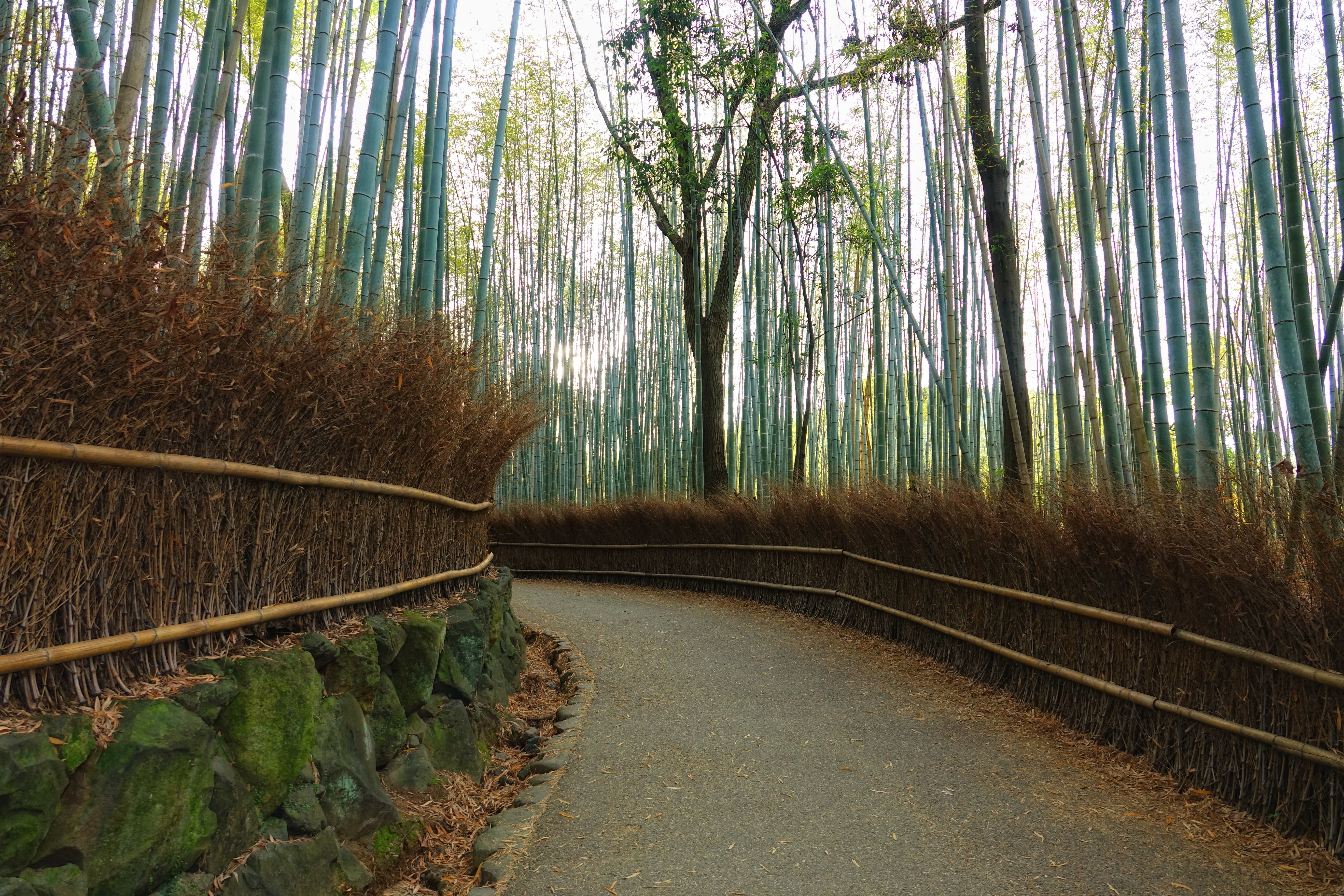 Part of the trail through the Arashiyama Bamboo Grove in Kyoto, Japan.